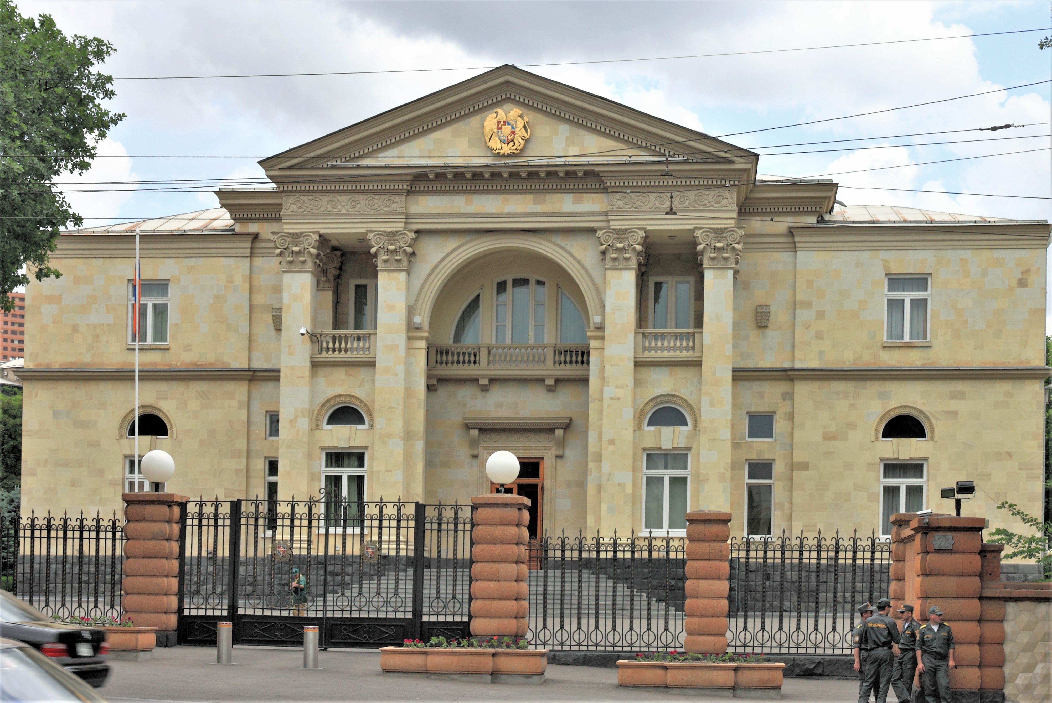 The Residence of the President of the Republic of Armenia. 26 Marshal Baghramyan Avenue. Yerevan, Armenia.